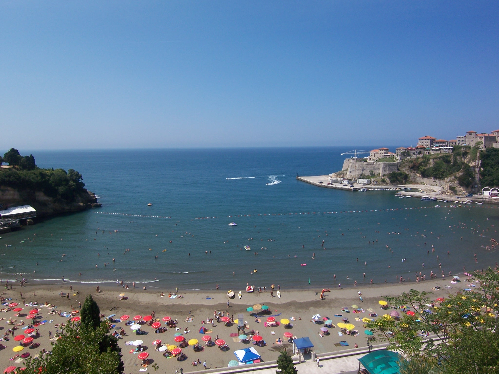 Little Beach – Ulcinj.